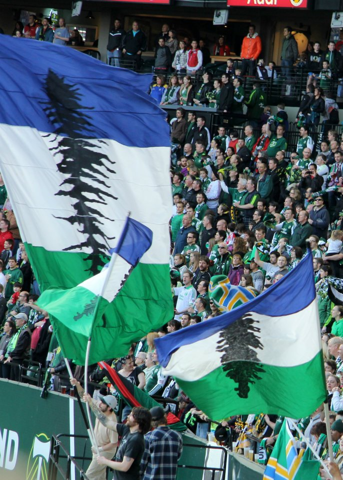 Large Cascadian Flag amongst the Timber Army at a Portland Timbers game